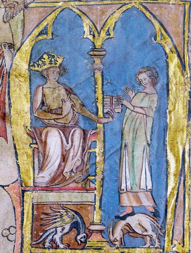 Magnus VI of Norway giving the national law (Landsloven) to a lawman. Illumination from the 14th century law text Codex Hardenbergianus.[1]